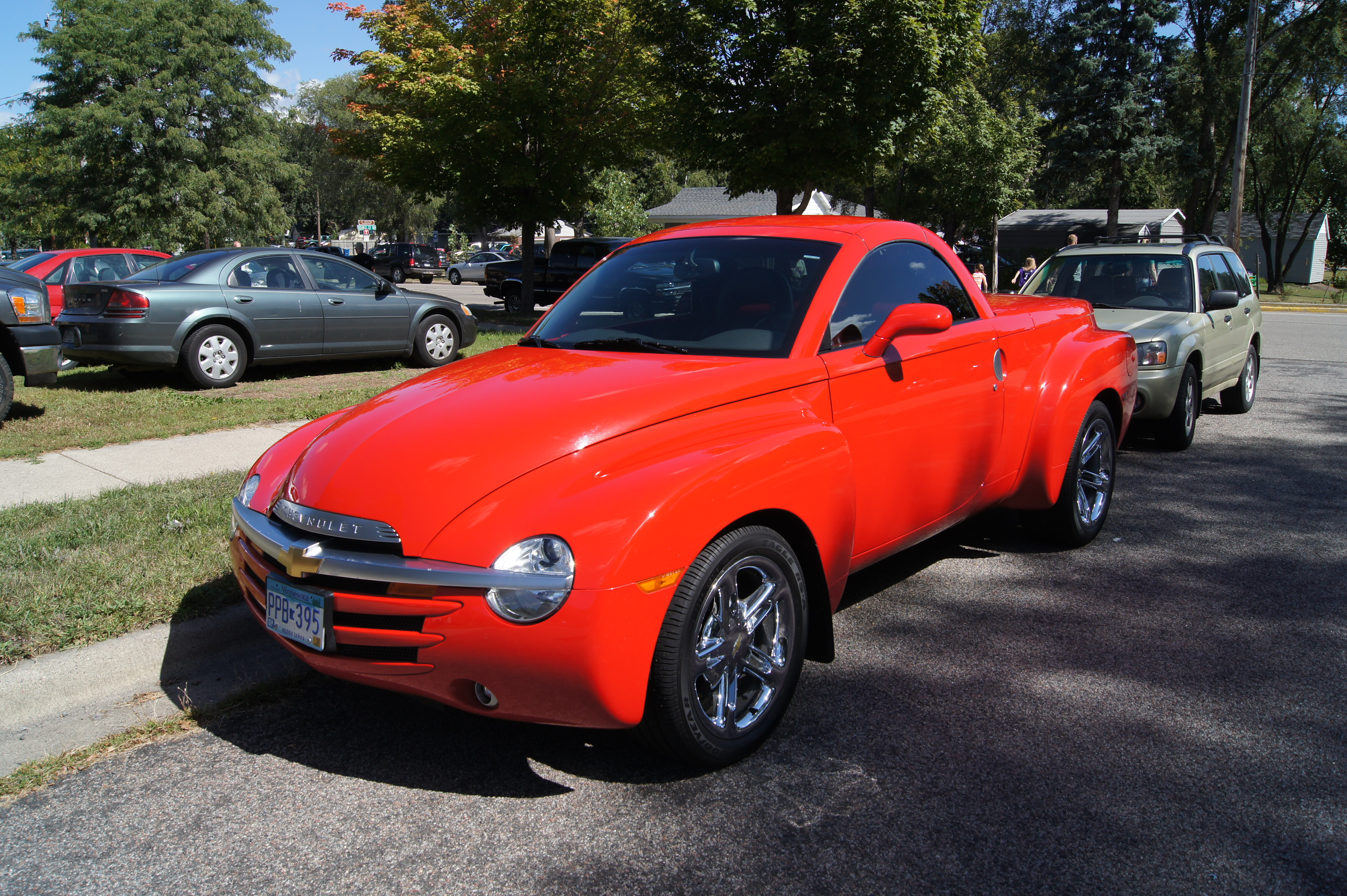 St. Cloud Antique Auto Club Pantowner's 37th Annual Car Show & Swap Meet